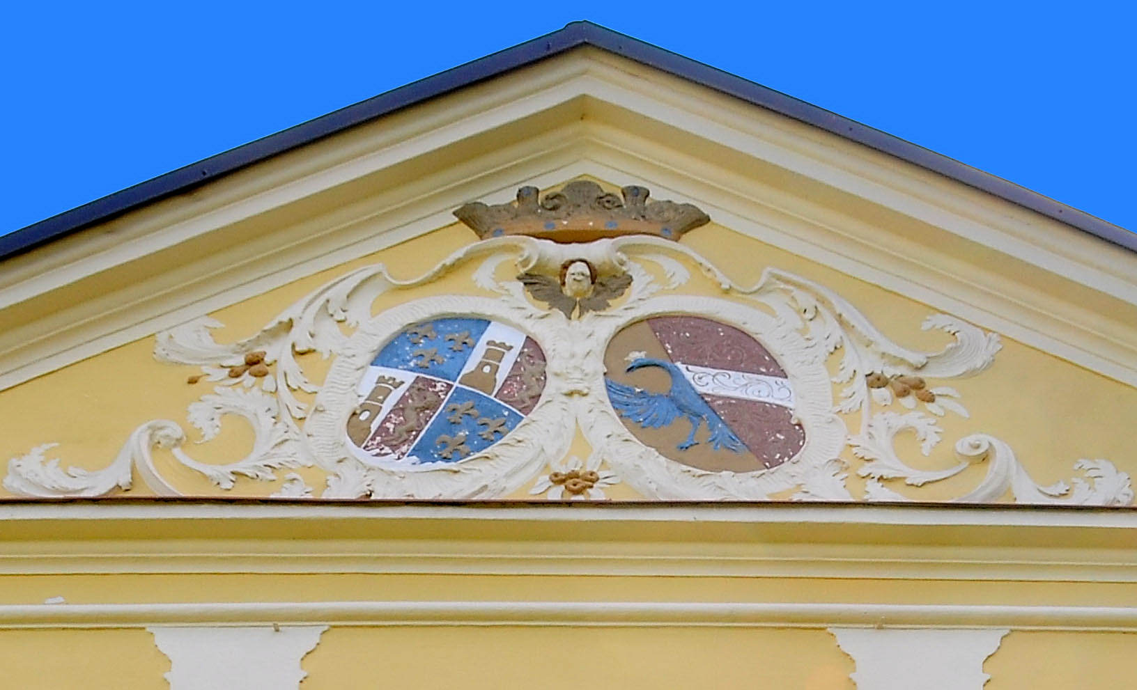 Pediment with the two-way coat of arms of Grotta-Himmelberg and rocaille plastering adornment on top of the central projection on the west side of the castle "Toeltschach" at Toeltschach, market town Maria Saal, district Klagenfurt Land, Carinthia / Austria / EU